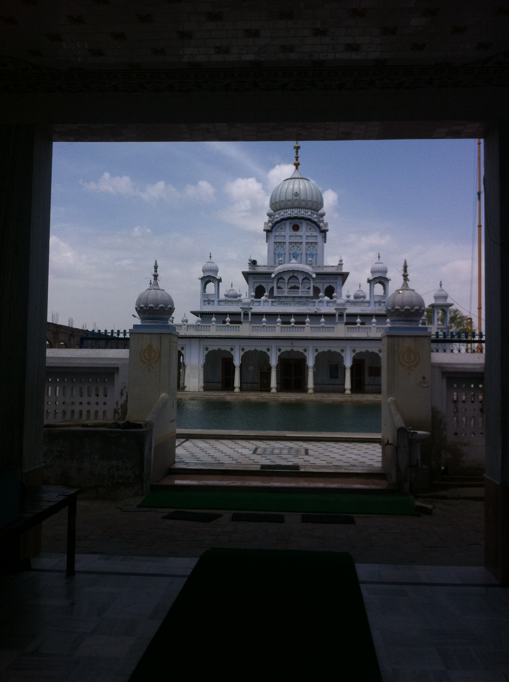 Gurudwara Sahib Patshahi Naumi, Phaguwala;Other information: This picture is captured by me and have no licence or copyright. It is used to help viewers of page to see photo of what written in article